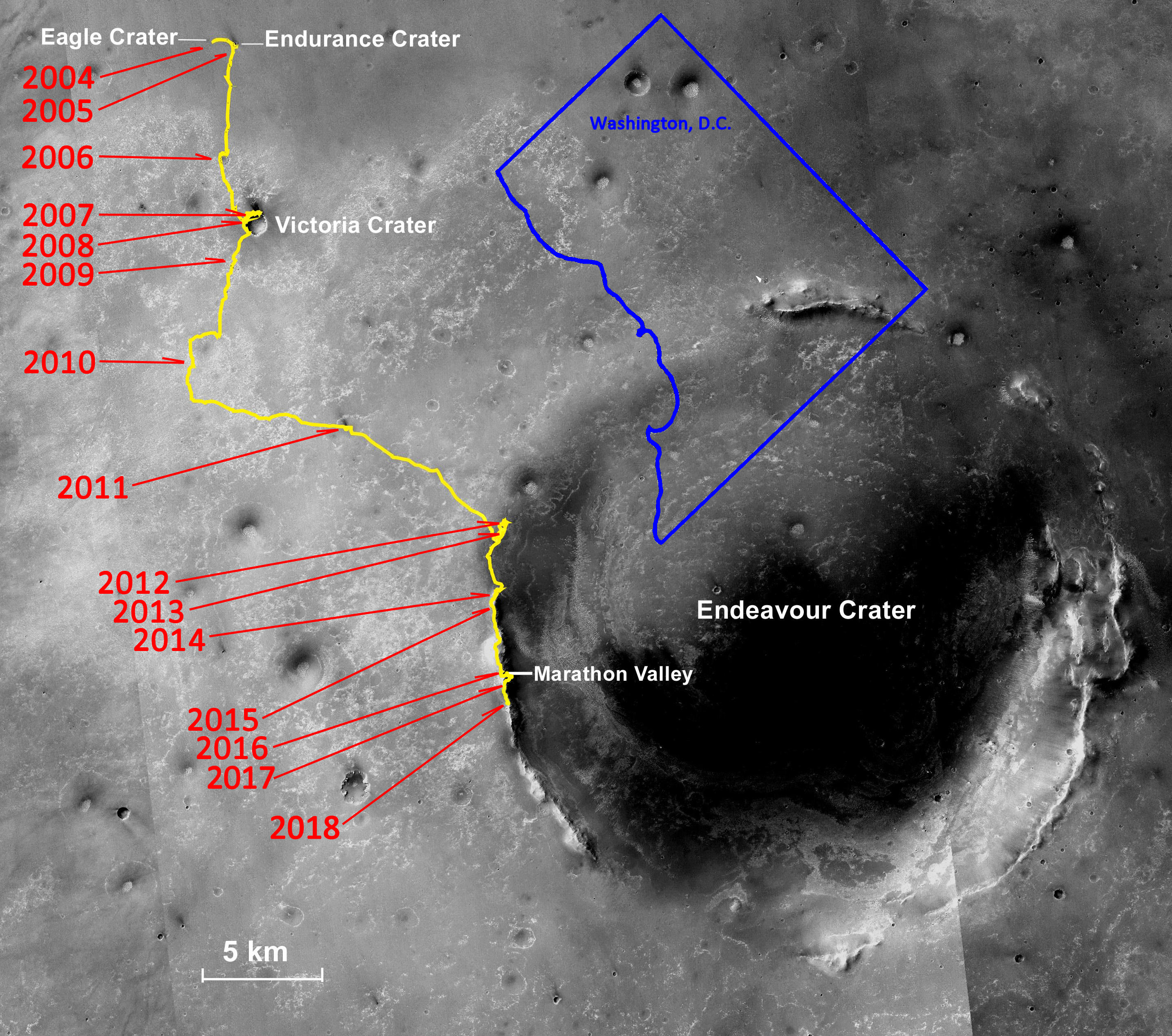 Yearly progress of opportunity rover with D.C. overlay for distance comparison.